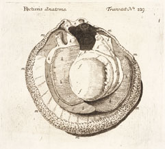 Historiae Conchyliorum illustration by Susanna Lister. The book by her father was available first in 1697.